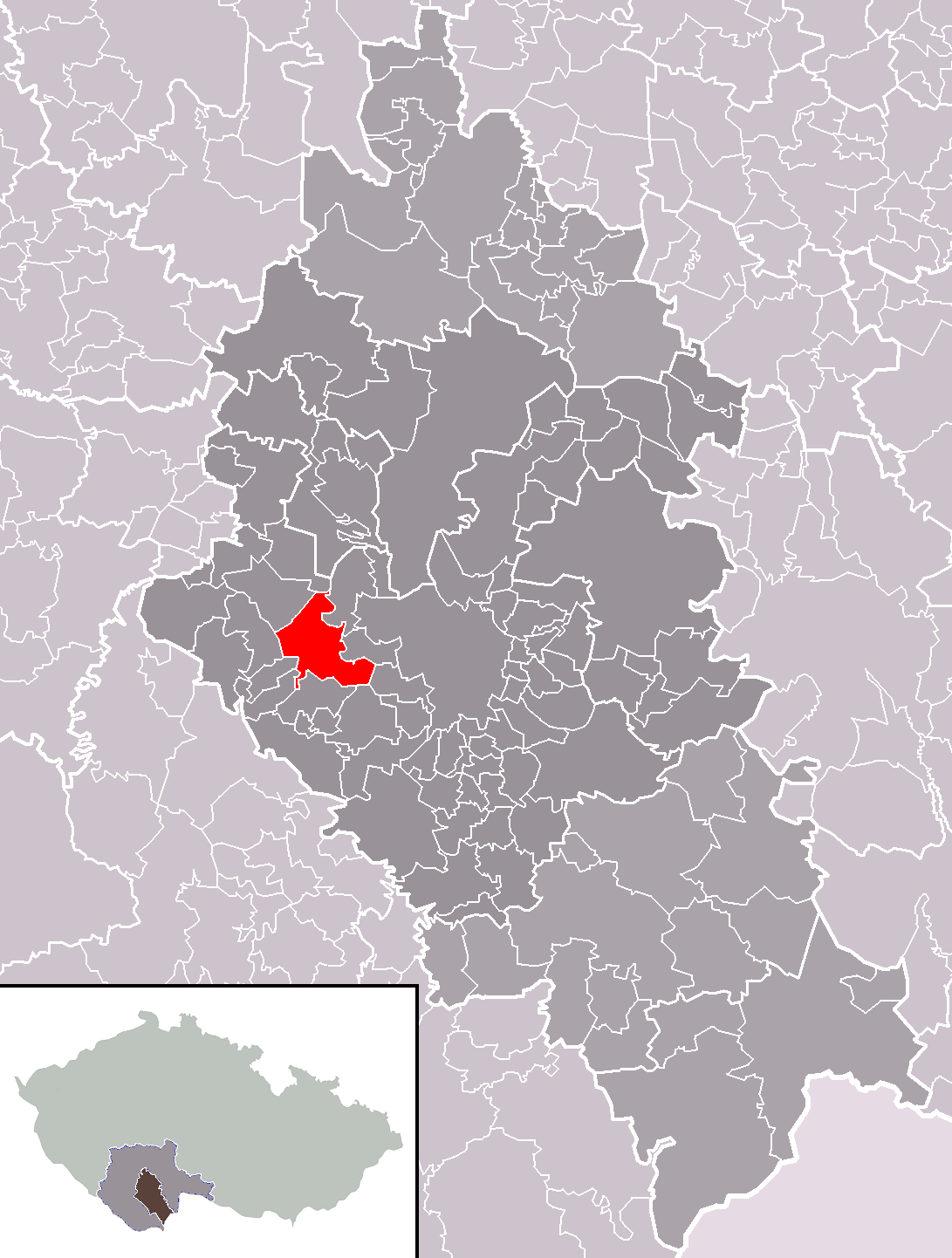 Location of Dubné municipality within České Budějovice District and administrative area of České Budějovice as a Municipality with Extended Competence.